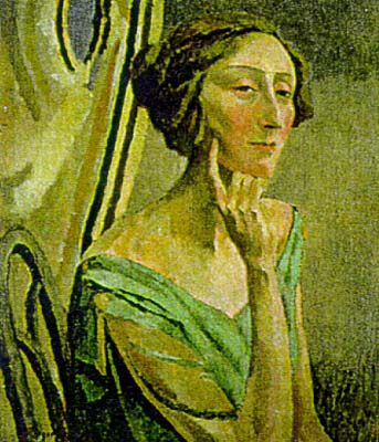 A portrait of Edith Sitwell by Roger Fry, 1915, oil on canvas.